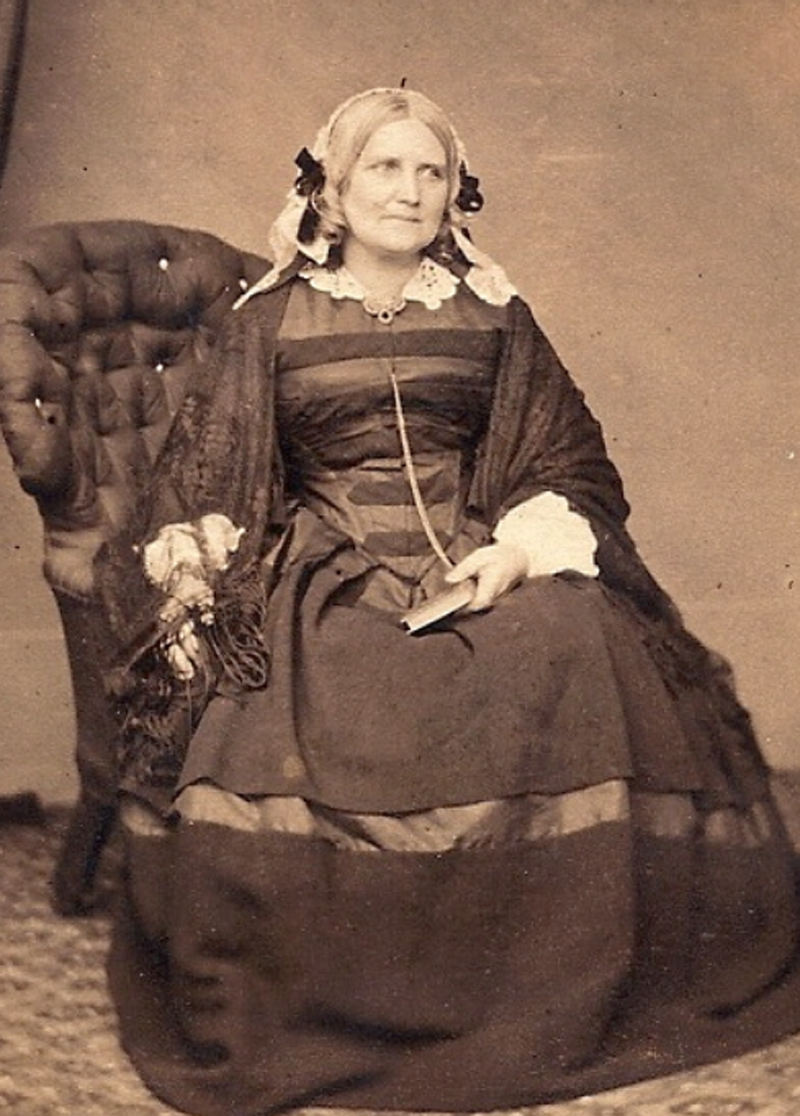 Emma Shaw, resident of Wentbridge House Yorkshire